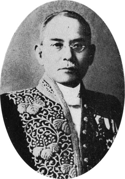 Motoichi Yuhara, former director of the Tokyo Women's Higher Normal School.